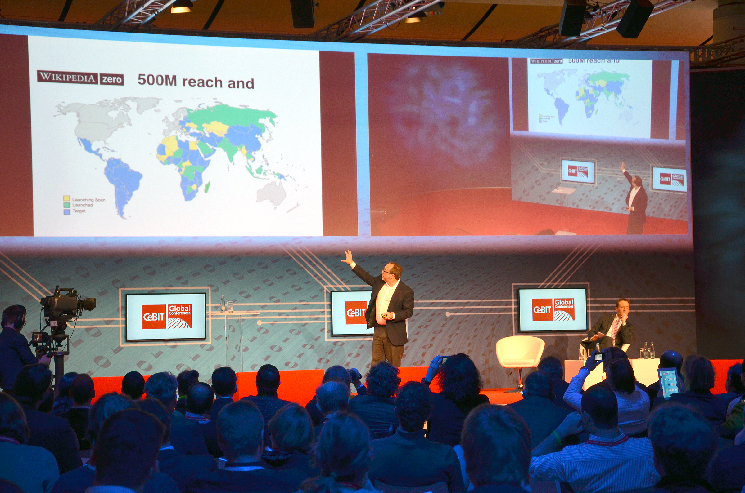 On stage of the CeBIT Global Conferences in 2014 Jimmy Wales explained especially Wikipedia Zero ...